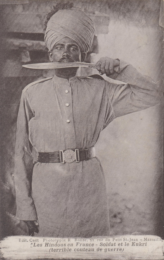 Hindu Gorkhali soldier with Khukuri (aka Kukri) circa 1915 AD stationed at France as the poster says